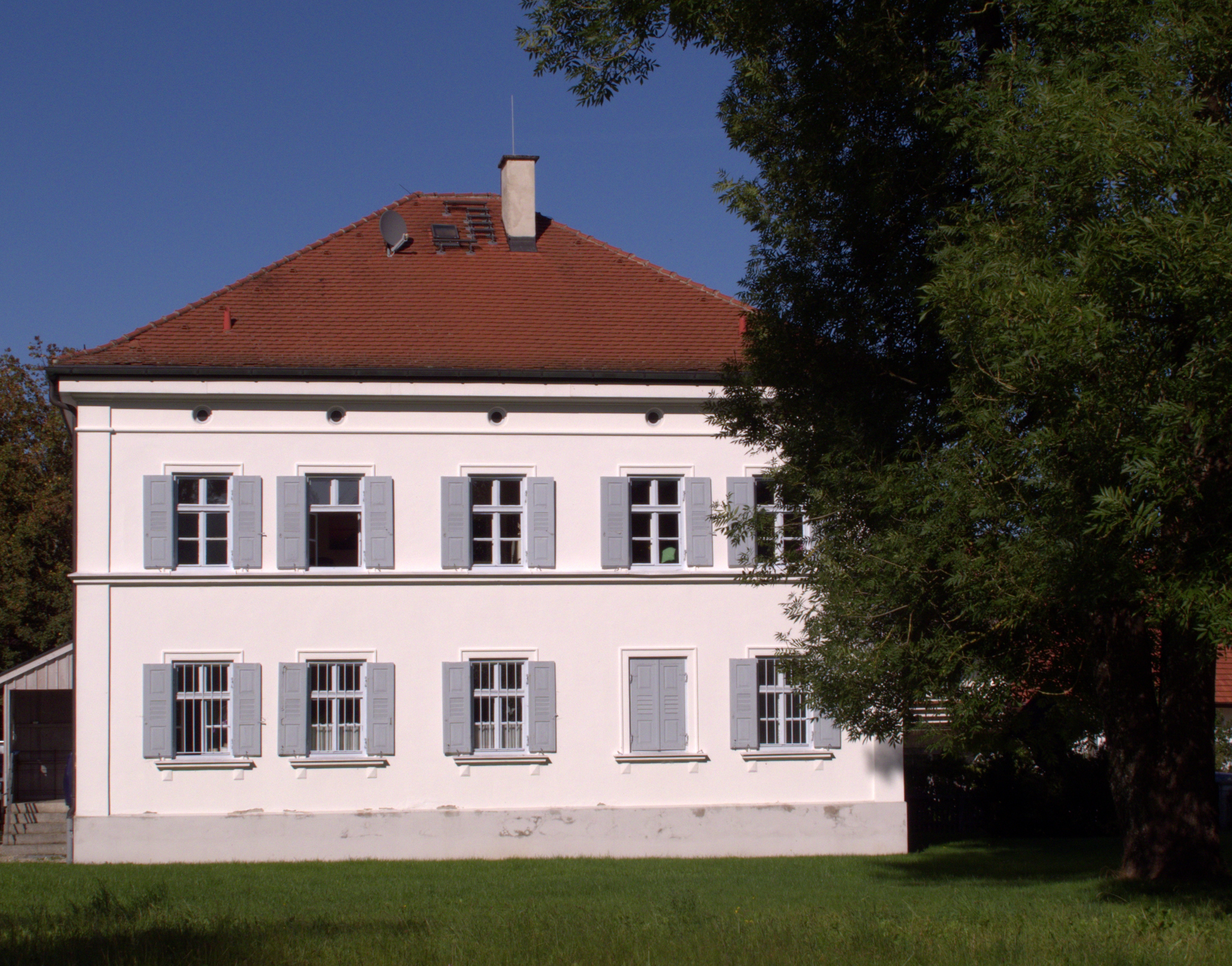 This is a photograph of an architectural monument.